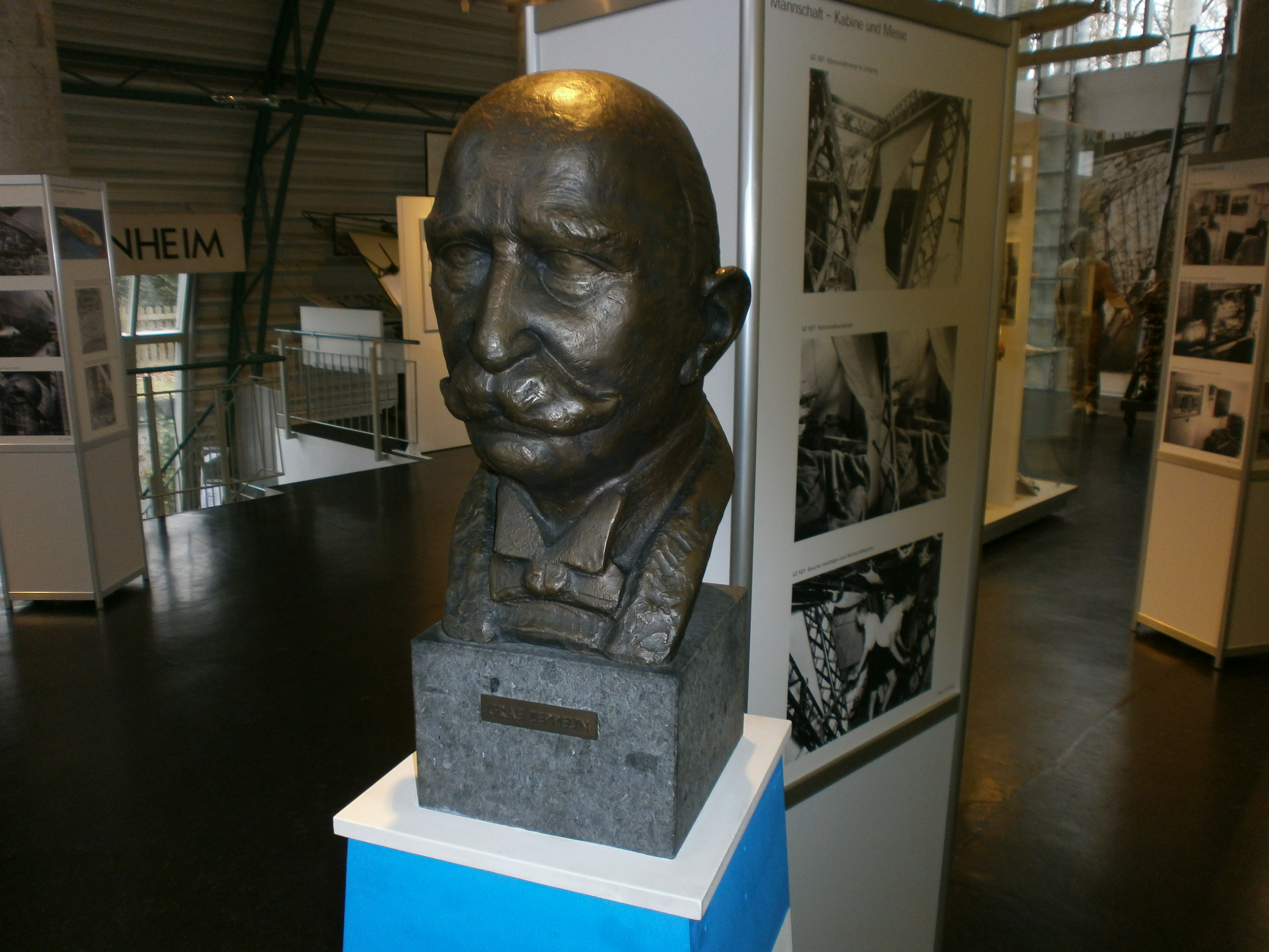 Duke Zeppelin